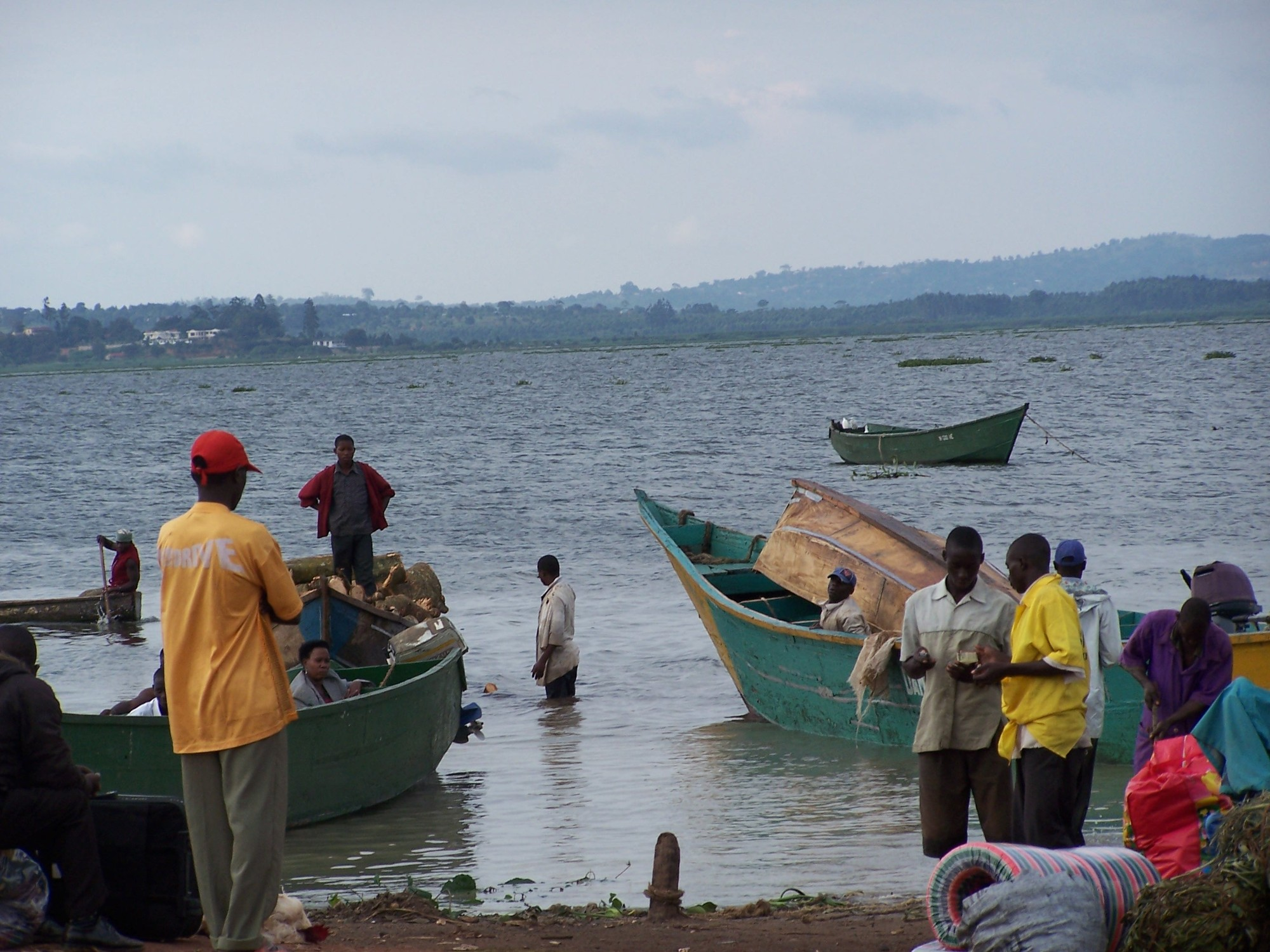 Lake Victoria. Fishers at Lake Victoria at Port Bell near Kampala, Kampala.